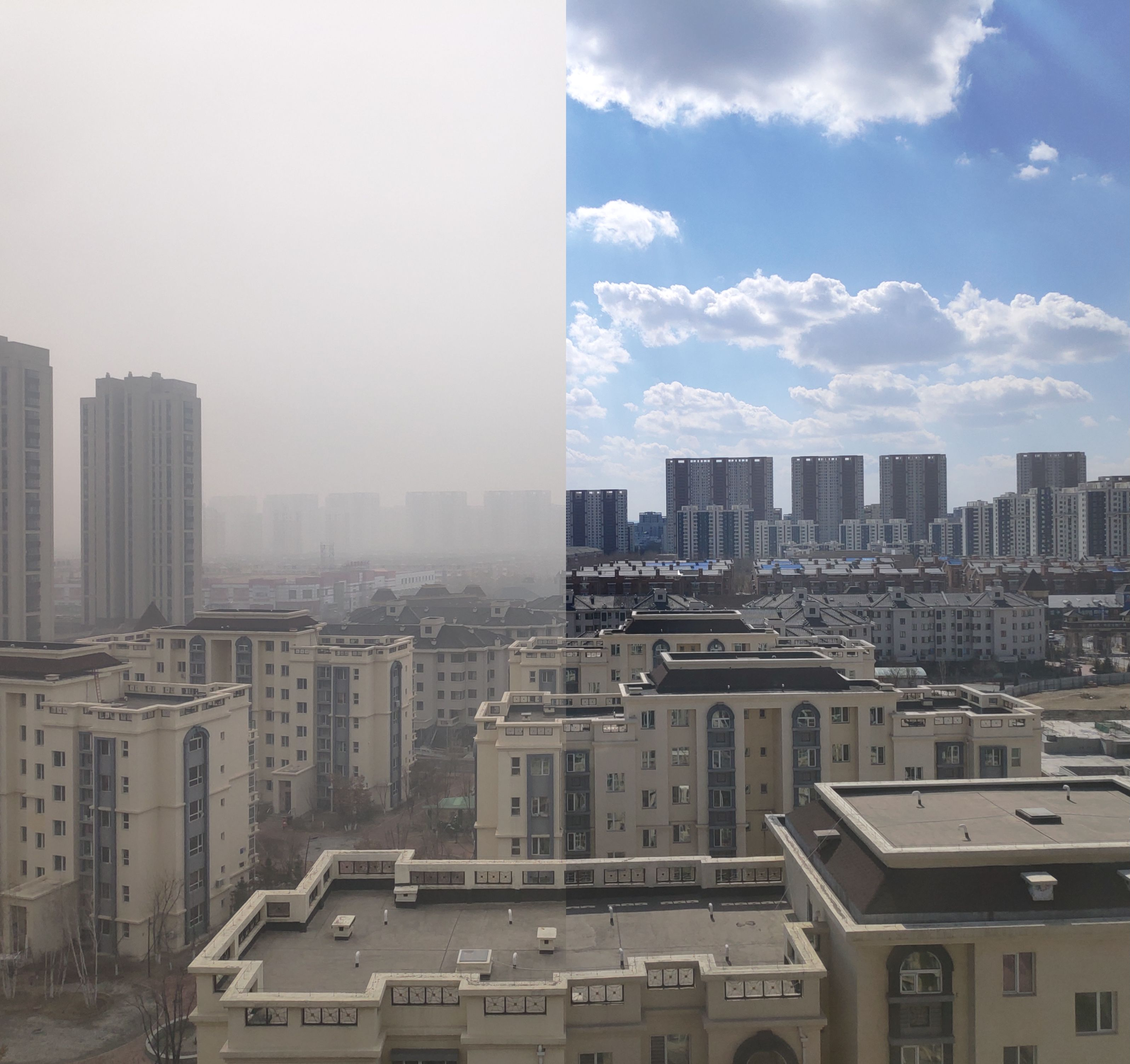 Fanhe 10 day interval contrast. Source file: smog, sunny